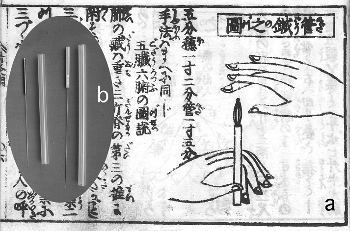 traditional and modern Japanese "tube needle" (kudabari), an invention of Sugiyama Wa'ichi (1610-94). This needle type was not known in China.